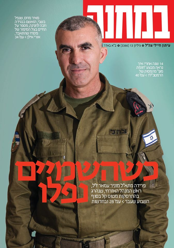 Depicted person: Munir Amar – Israeli general